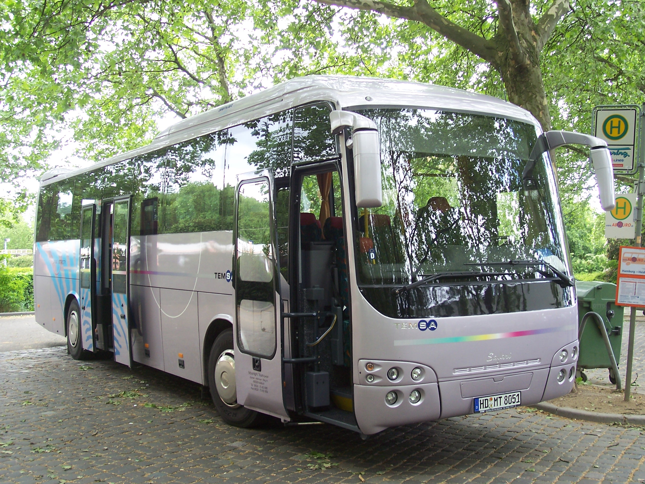 Temsa Safari Intercity bus (HD-MT 8051) in Mannheim, Germany. Moonlight Tours GmbH operator.